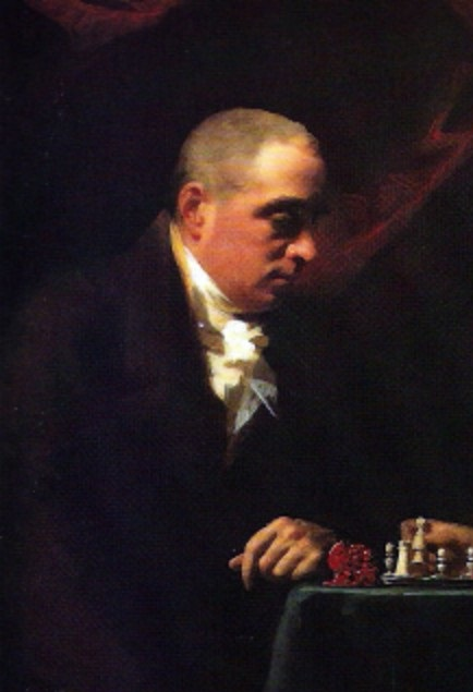 Portrait of General Francis Dundas